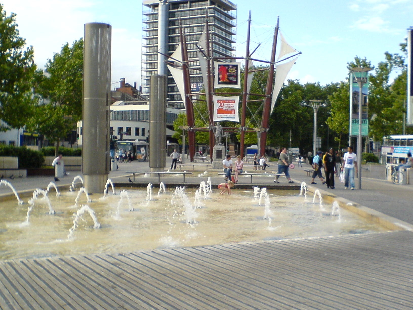 The water fountains and paddling area, with the sail feature behind, in Bristol City Centre in 2006. This is part of the 'Promenade Option' built in the late 1990s.